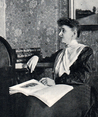 Portrait of the female Swedish writer Mathilda Malling